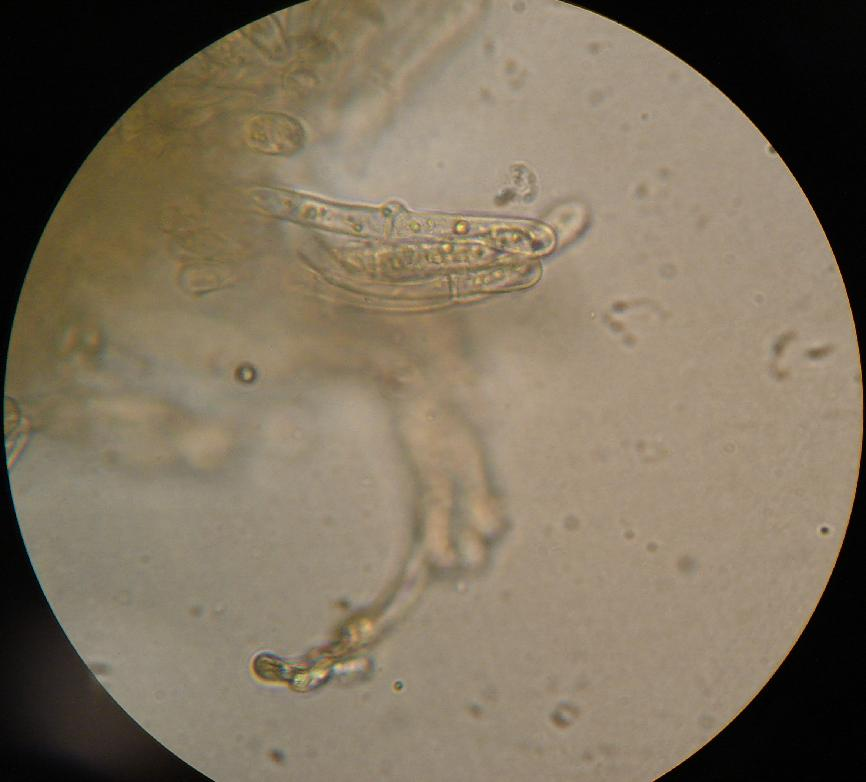 Clamp connections in Cantharellus cibarius.